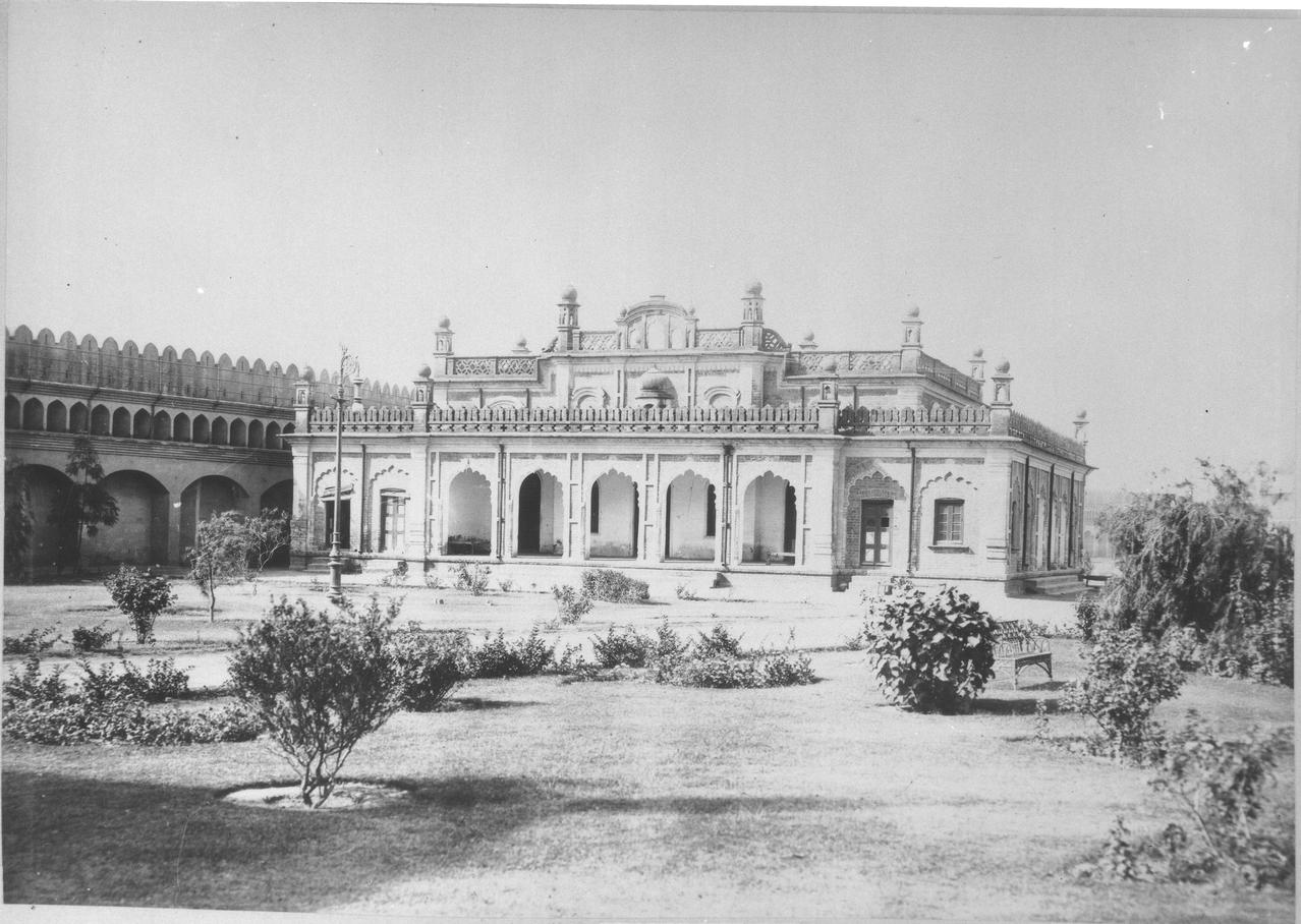 Guest-house - Fort in Rampur, Uttar Pradesh